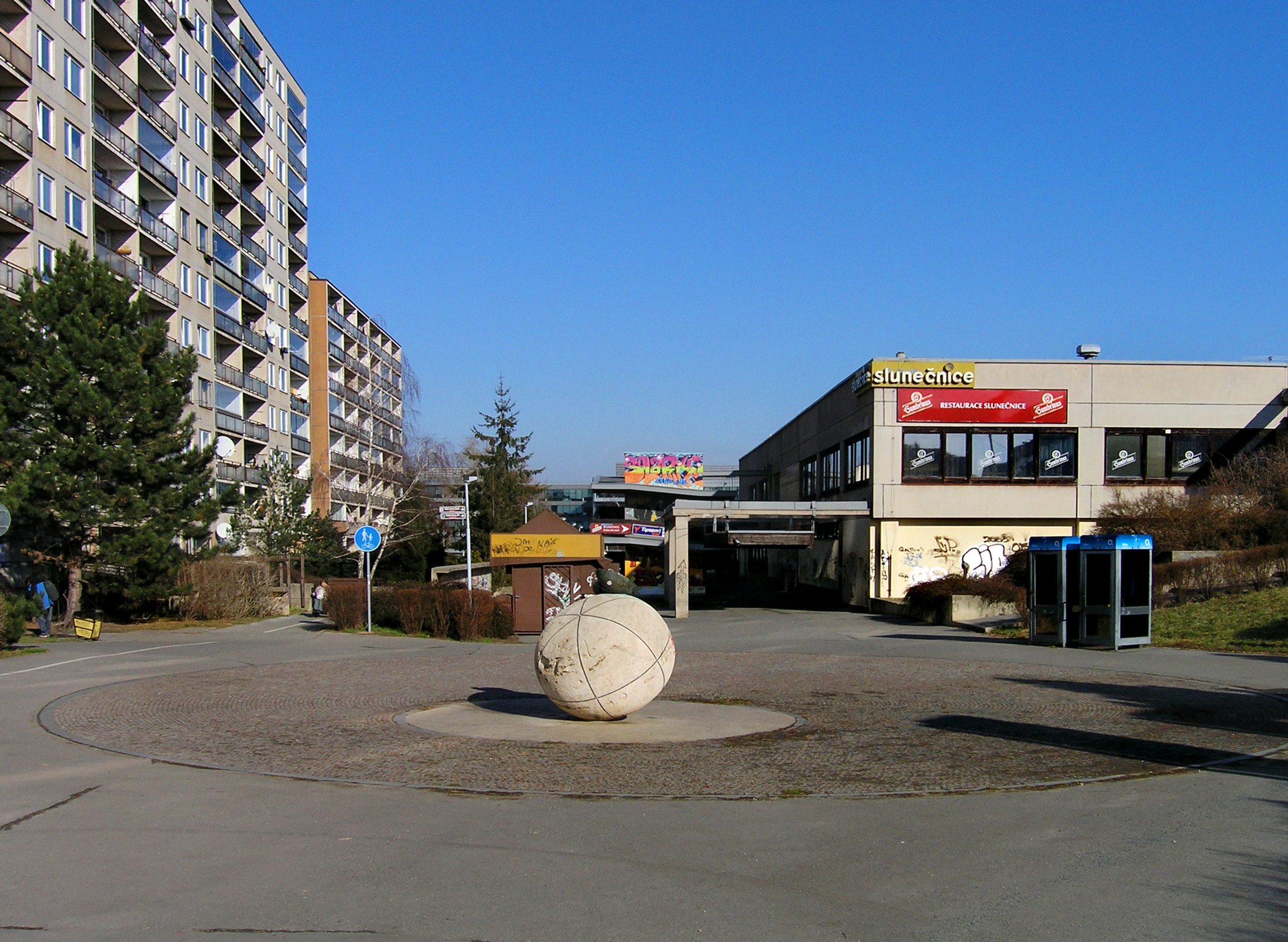 Jírovcovo square in Jižní Město II housing estate in Chodov, Prague